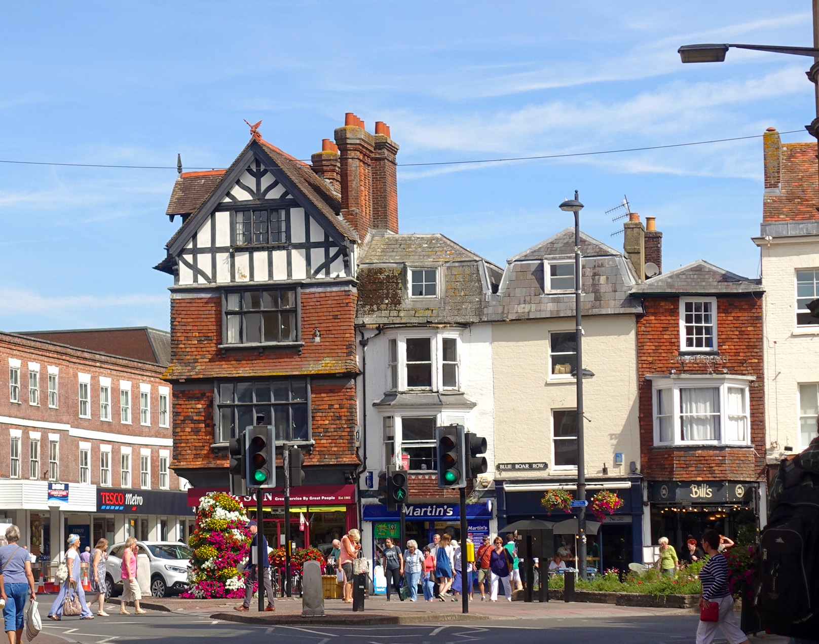 Salisbury, England.